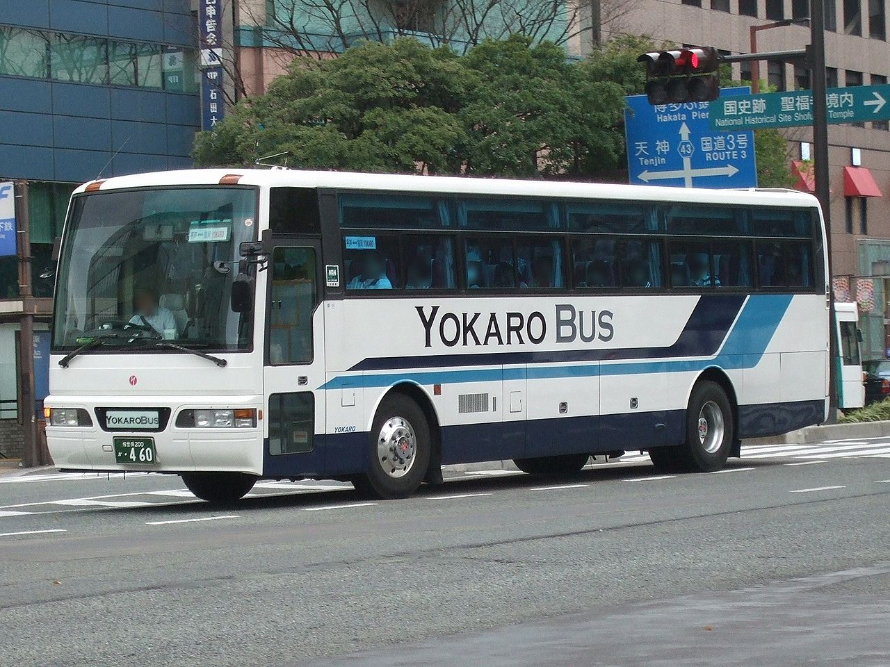 Company:Yokaro Use:transit bus (highway bus) Car license:NSS 200 KA 460 Chassis manufacturer:Nissan Diesel Type:Space Arrow Coachbuilder:Fuji Heavy Industries Location:in Hakata Ward, Fukuoka City, Fukuoka, Japan.